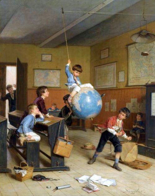 Dargelas: Le tour du monde